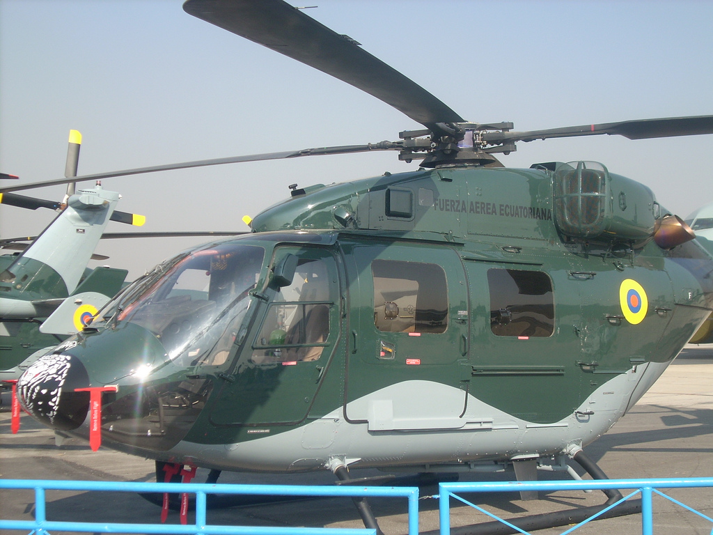 Cobra - HAL Dhruv helicopter of the Ecuadorian Air Force.